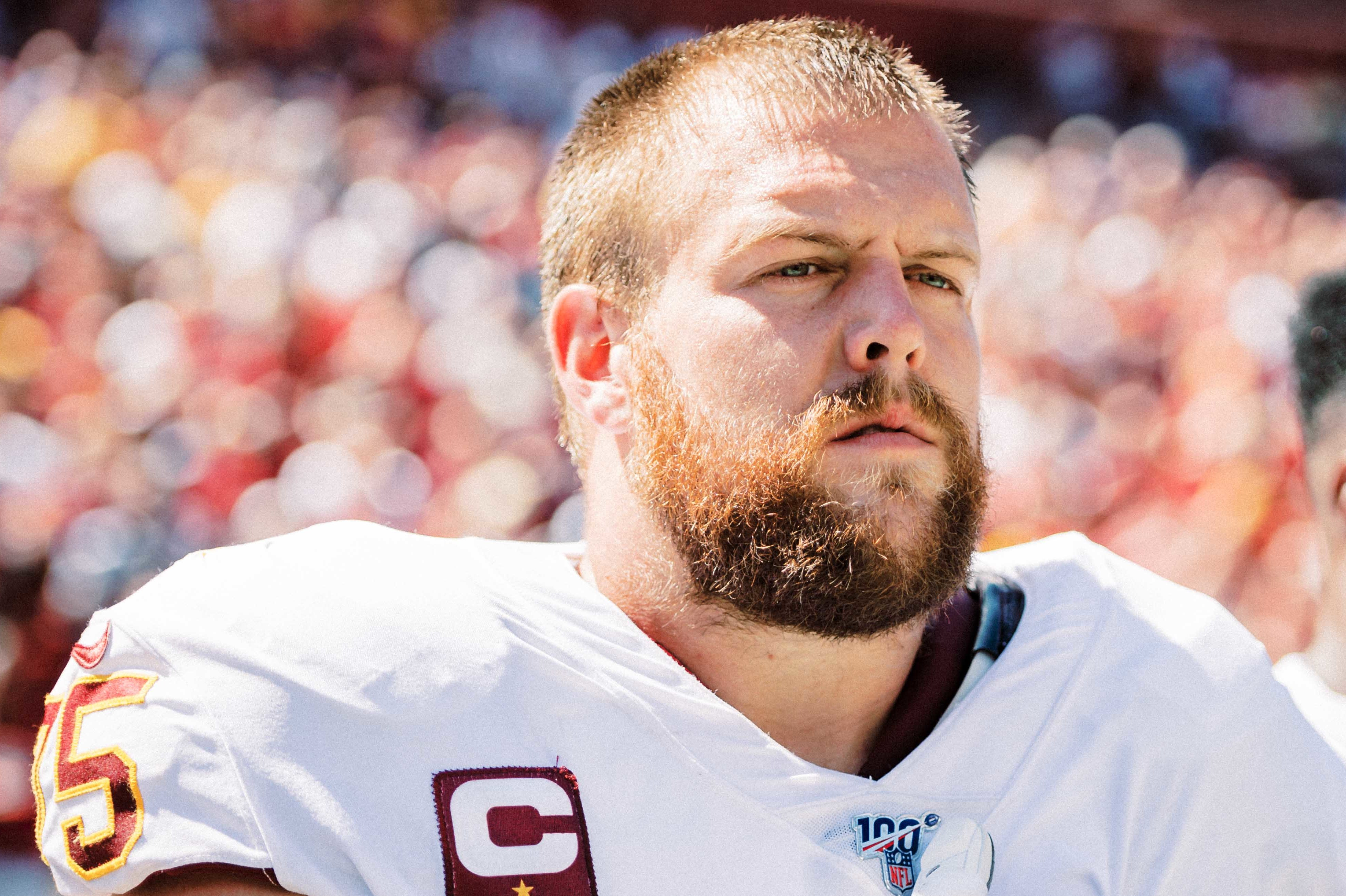 Brandon Scherff, Washington Redskins guard, stands during the playing of the National Anthem before a football game at FedEx Field in Landover, Md. Sept. 15, 2019. The National Anthem was performed by the United States Air Force Band Singing Sergeants Quartet.